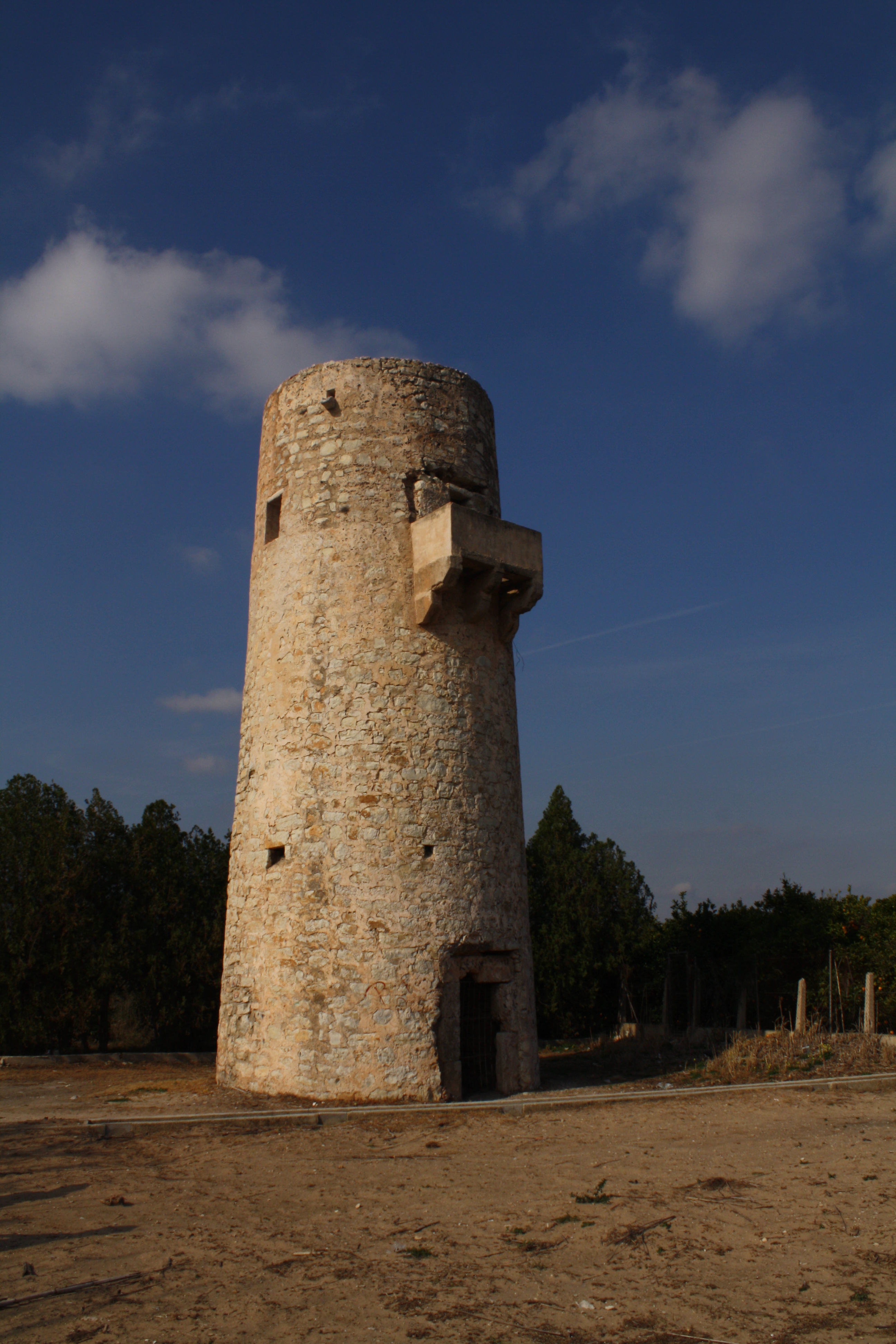 Tavernes de la Valldigna's watchtower, also known as Torre de guaita or Torre de la Vall. It is a registered cultural monument with id number: R-I-51-0010817.